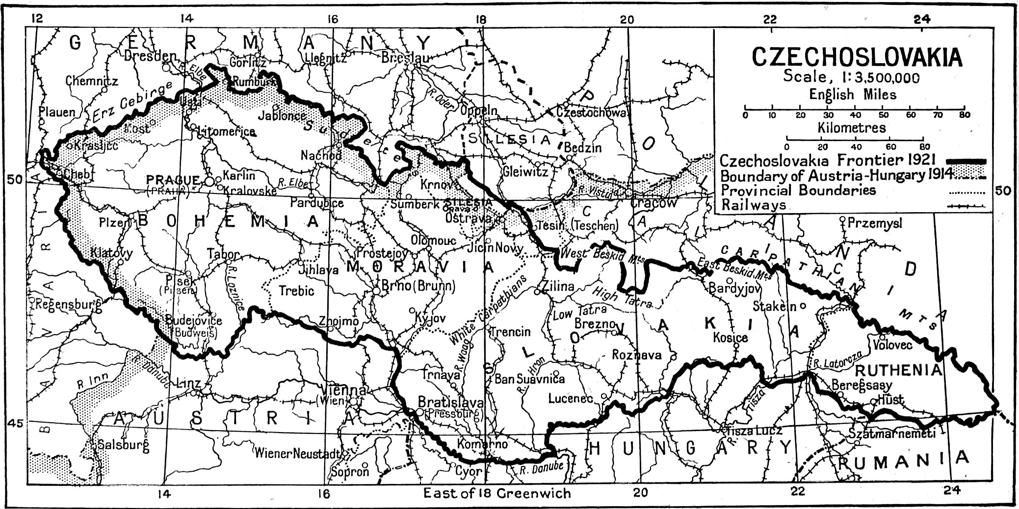 Political map of Czechoslovakia